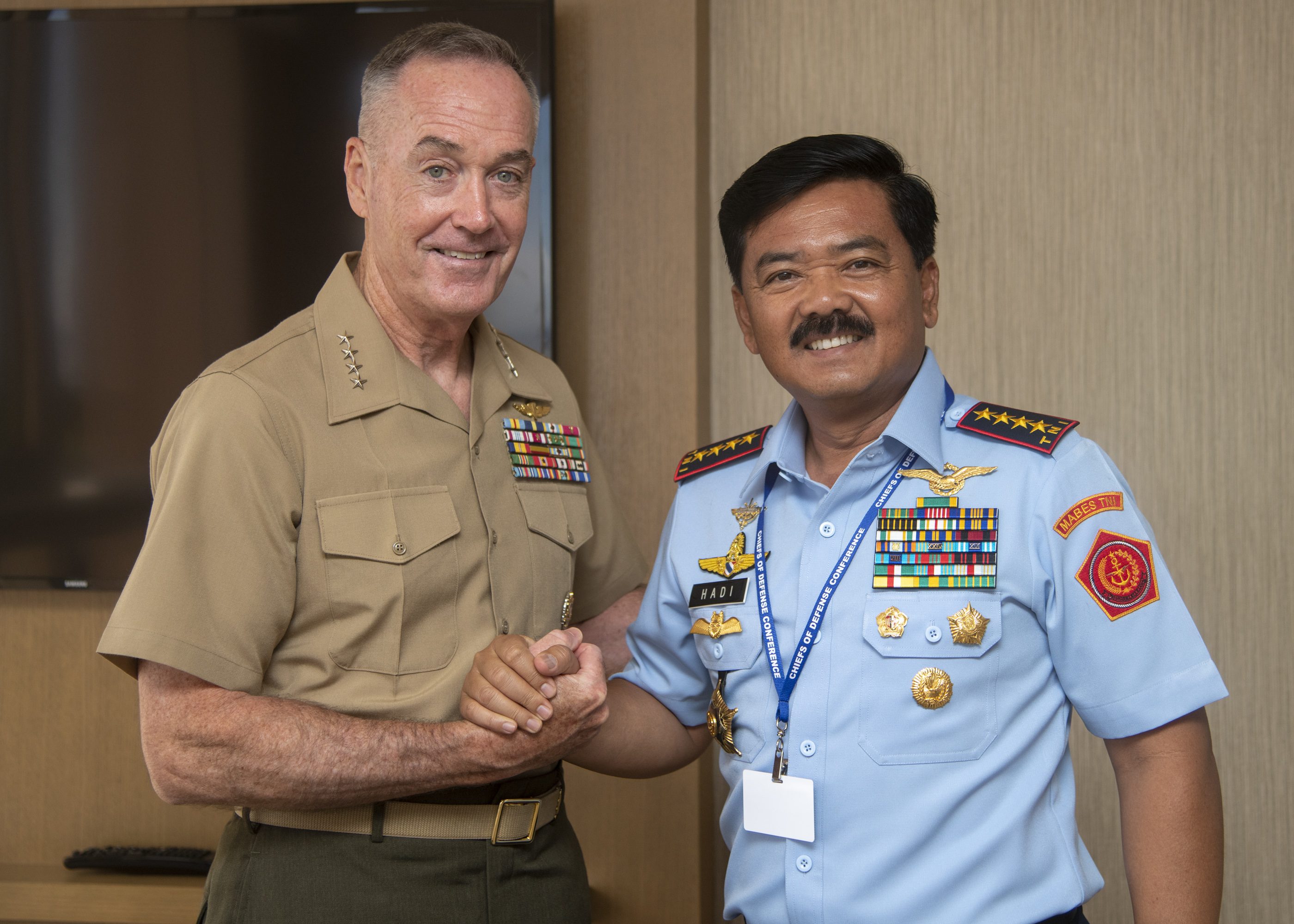 Marine Corps Gen. Joe Dunford, chairman of the Joint Chiefs of Staff, meets with Indonesian Air Force Air Chief Marshal Hadi Tjahjanto, Commander, Indonesian National Armed Forces, during the Indo-Pacific Chief of Defense conference in Waikiki, Hawaii, Sept. 10, 2018. (DOD photo by U.S. Navy Petty Officer 1st Class Dominique A. Pineiro)